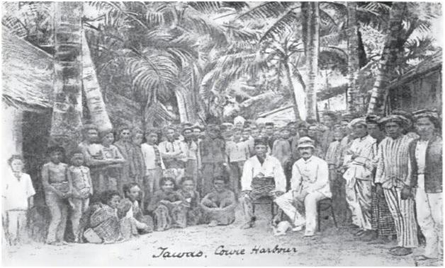 Tawau residents with their chief Puado @ La Toampong Andi (sitting left) and the British Resident of Tawau, Alexander Rankin Dunlop (sitting right) in the Cowie Harbour of Tawau.